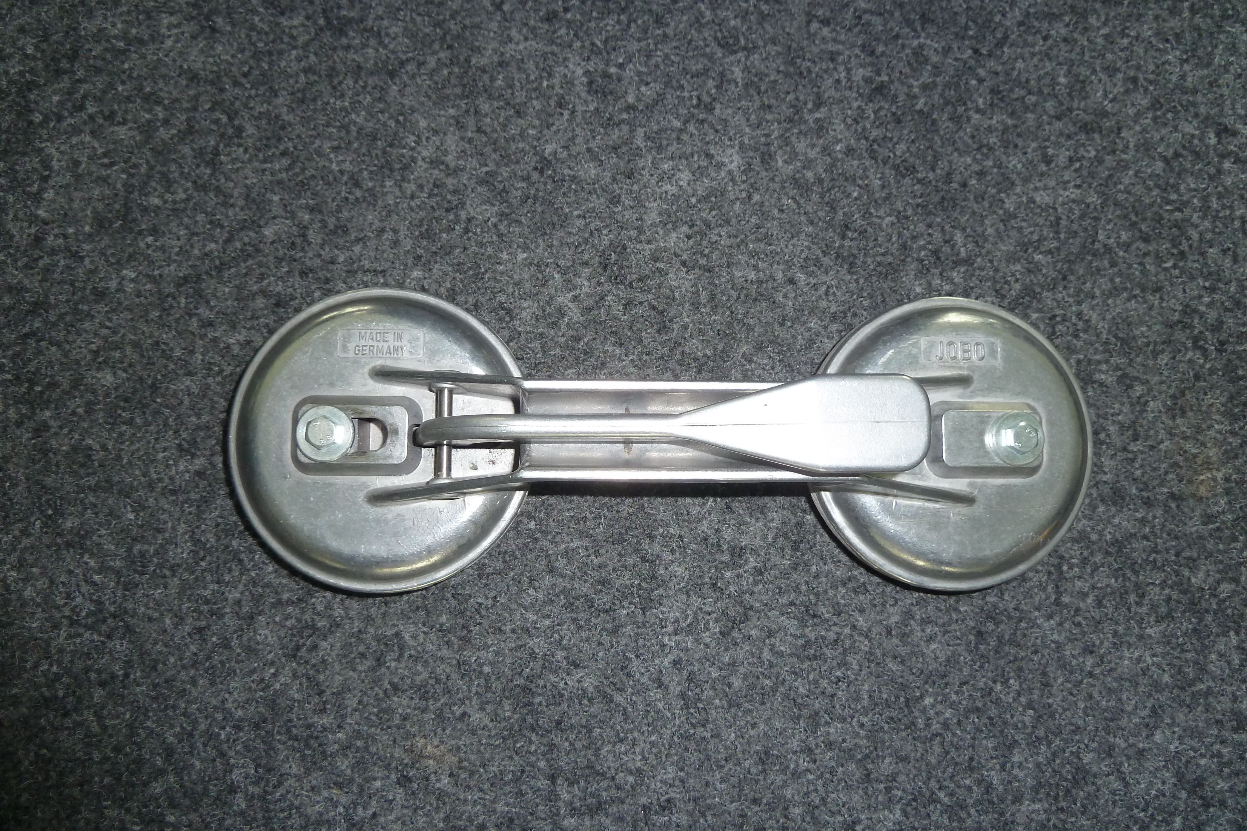 Closed panel lifter, view from top